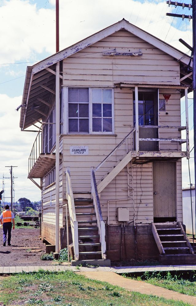 Toowoomba Railway Station, Signal Cabin A (1993)